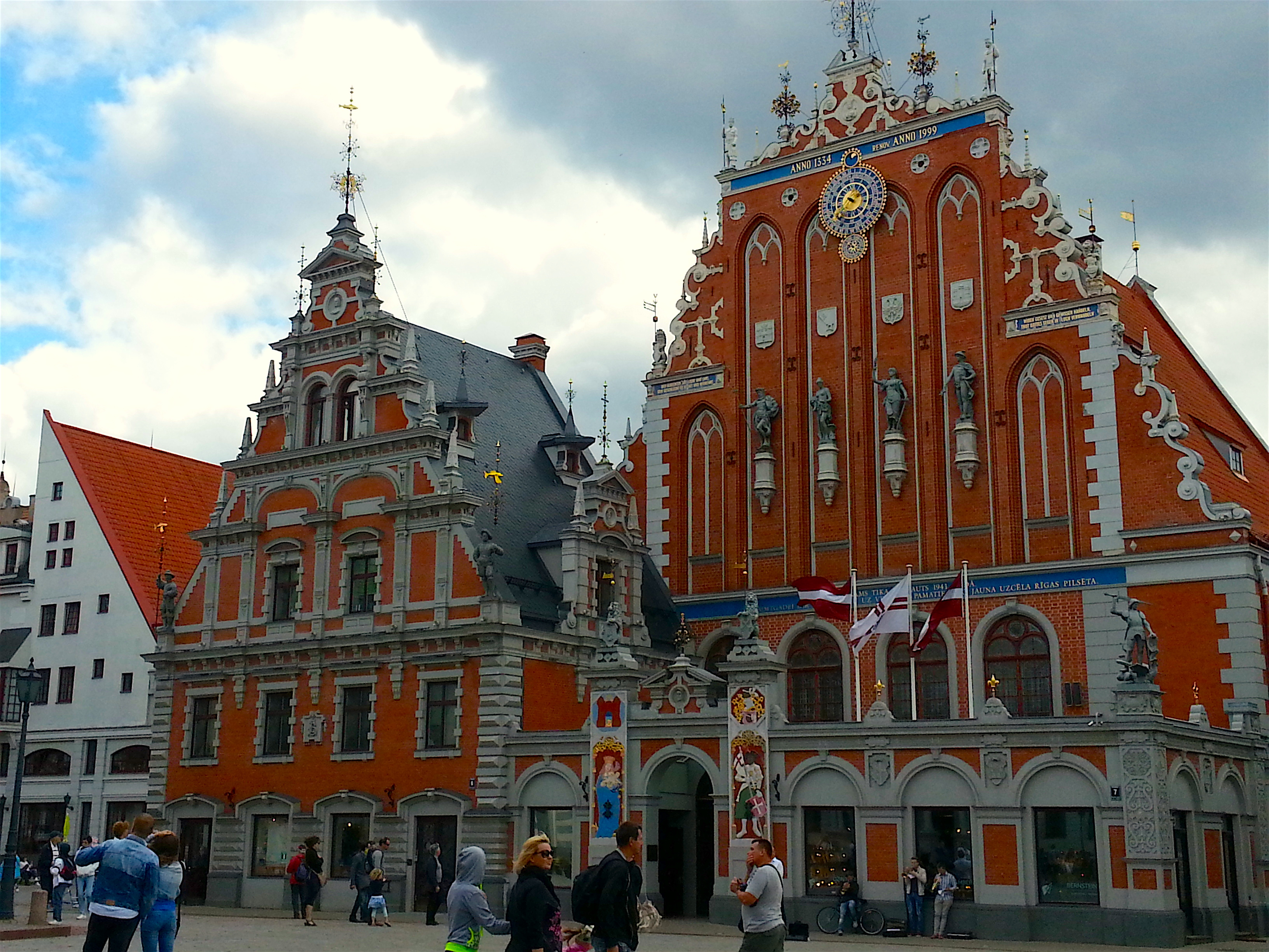 House of Blackheads in Riga, Latvia